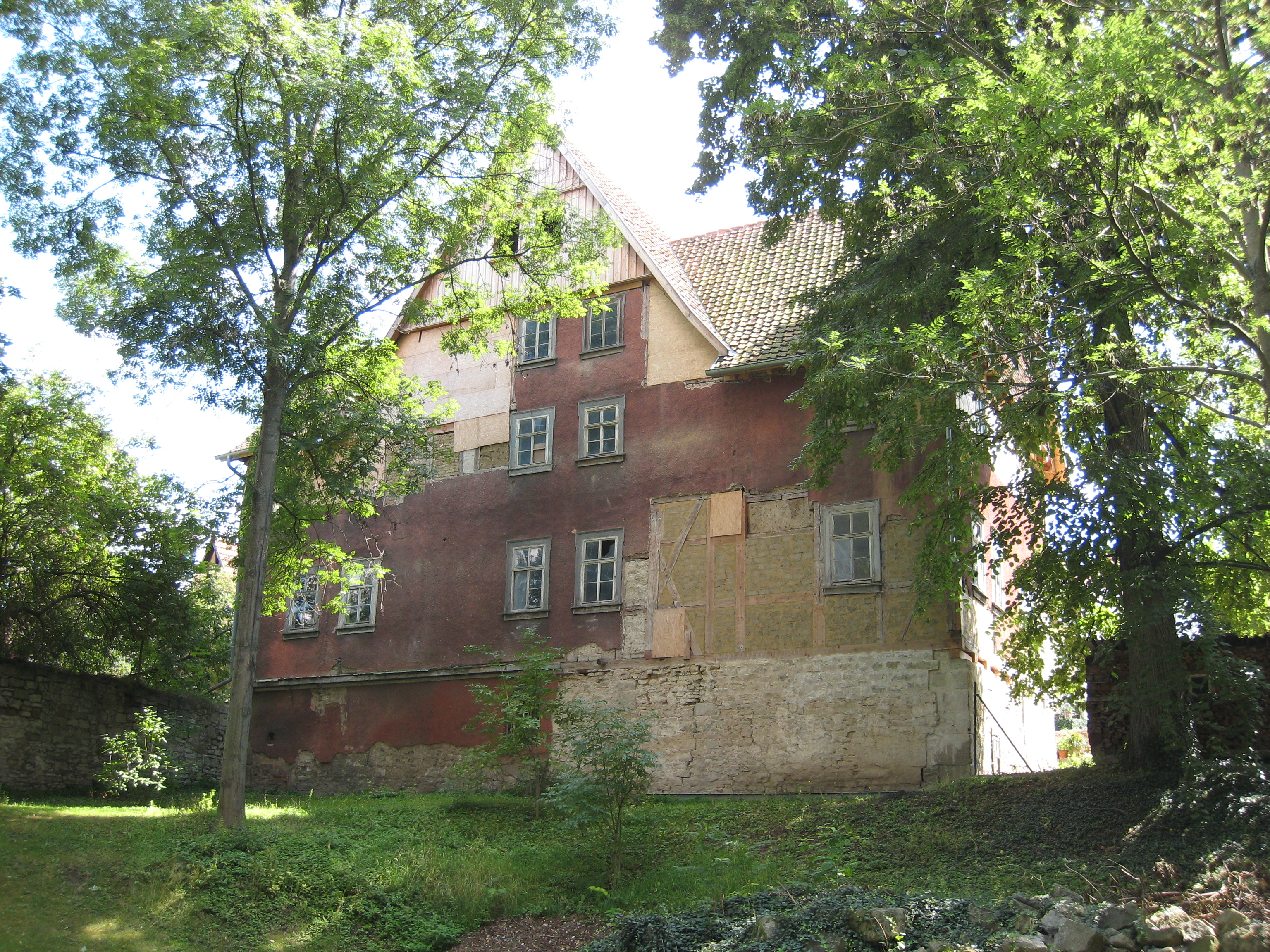 Liebfrauenkirche Arnstadt - ehemalige Klostergebäude